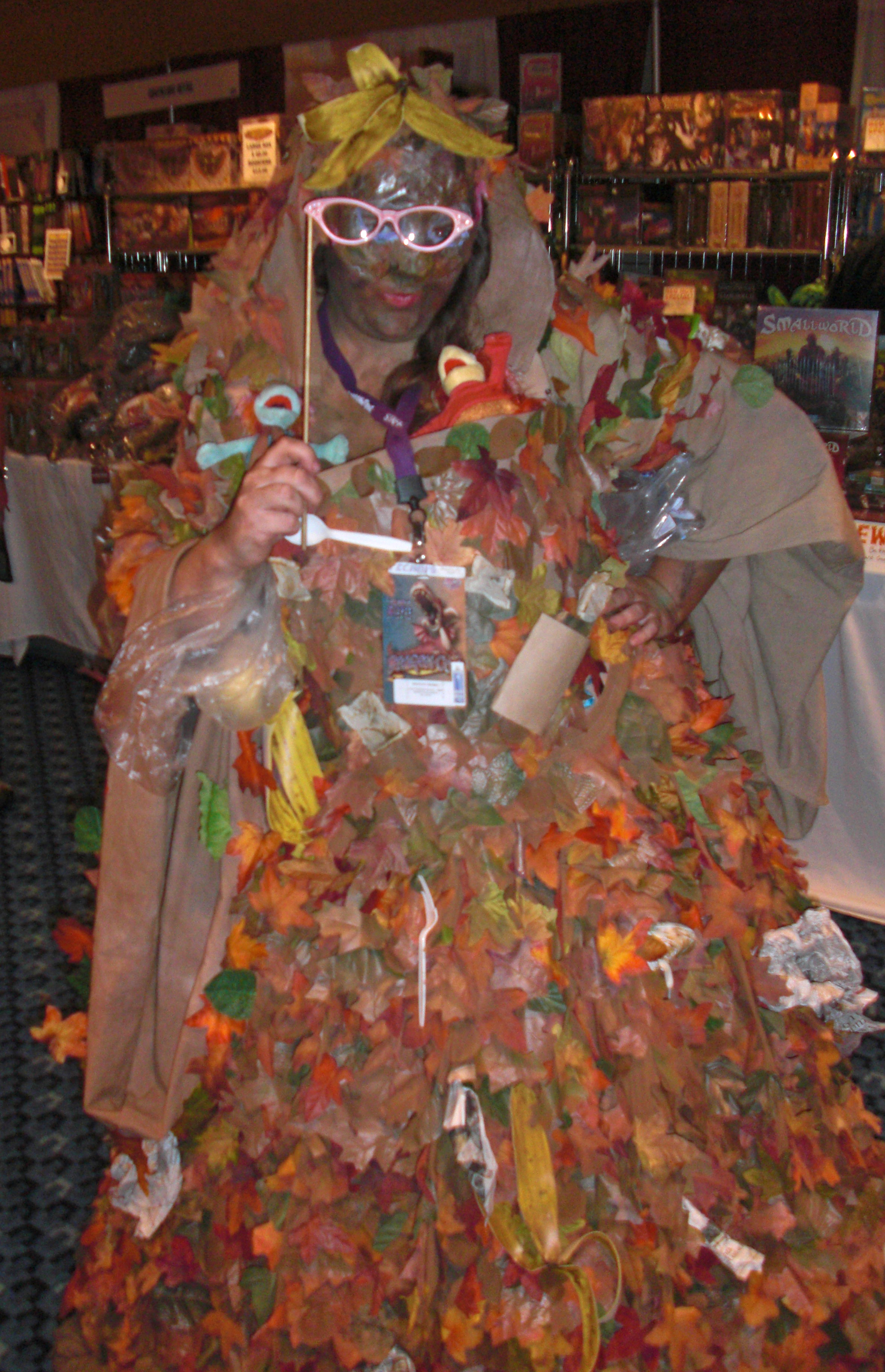 Marjorie the trash heap (of fraggle rock) costume at Dragon Con 2010